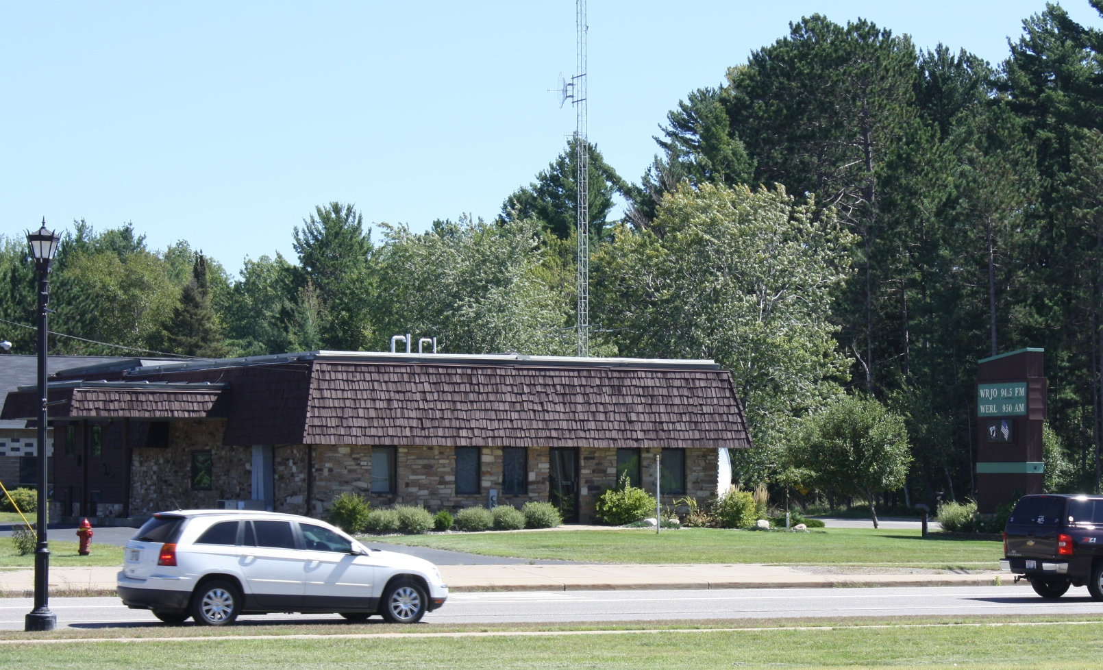 Looking at the studios for WRJO / WERL on U.S. Route 45 in Eagle River, Wisconsin.